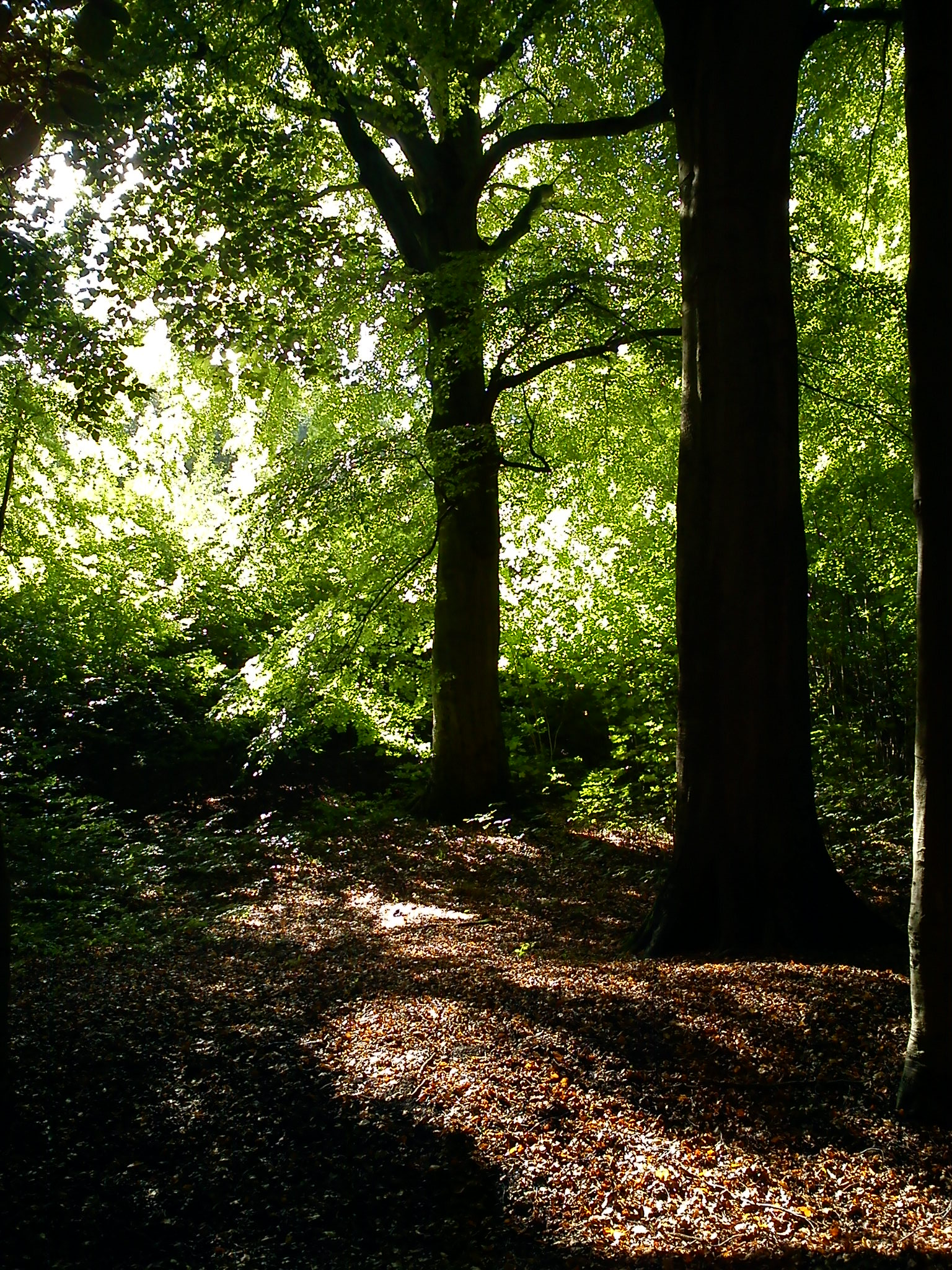 Typical scenery in Riis Skov (Aarhus). Beech trees spanning all ages.